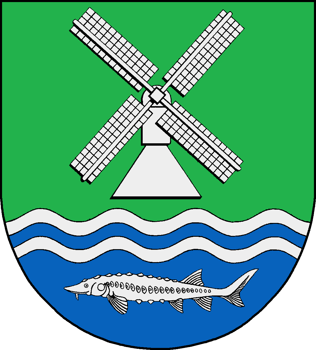 Coat of arms of the municipality Stördorf in Schleswig-Holstein, Germany.